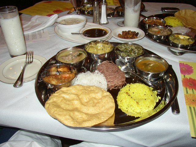 Thali